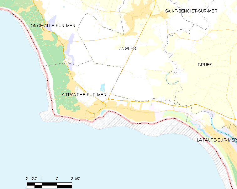 Map of French municipality La Tranche-sur-Mer